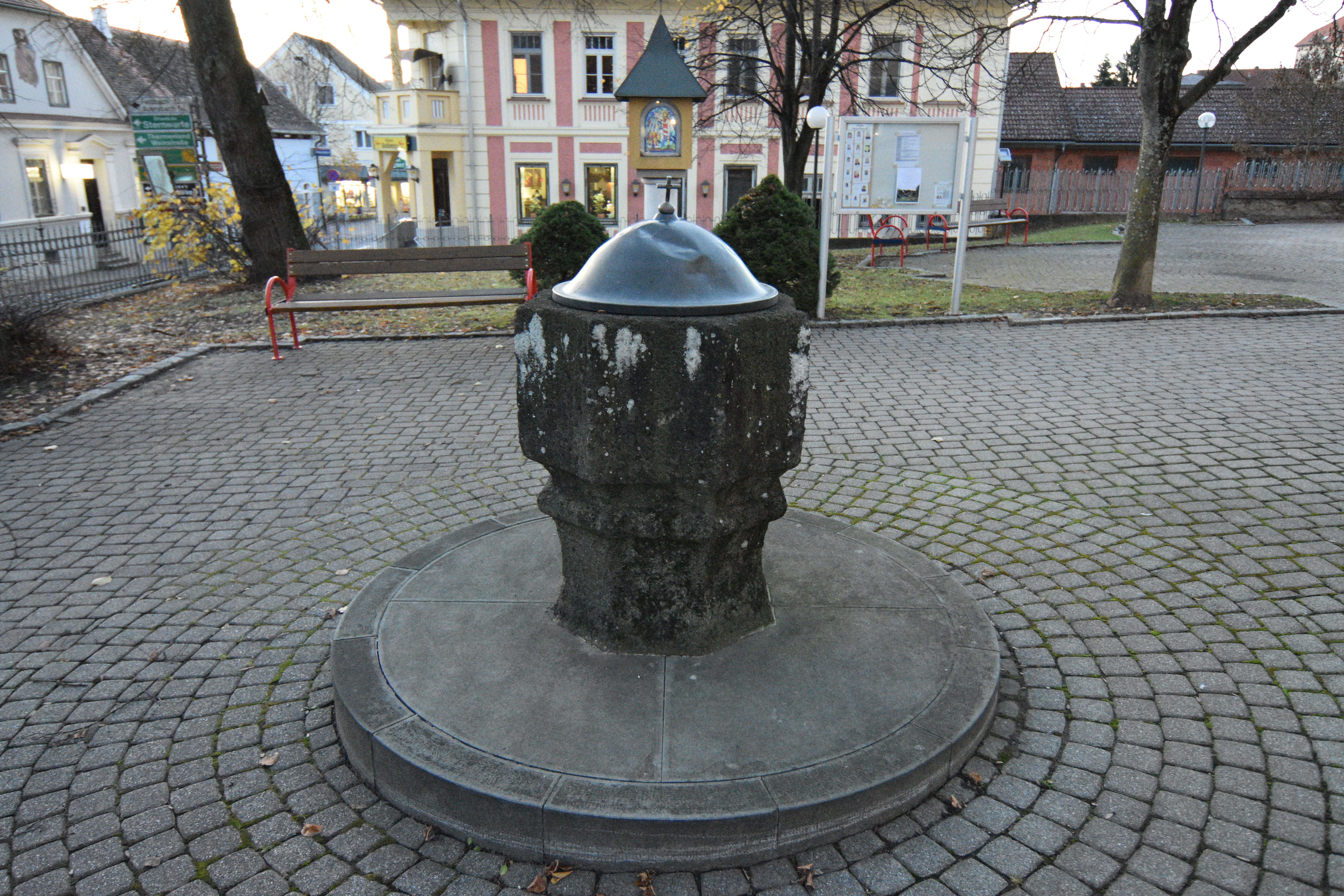 Church Markt hartmannsdorf